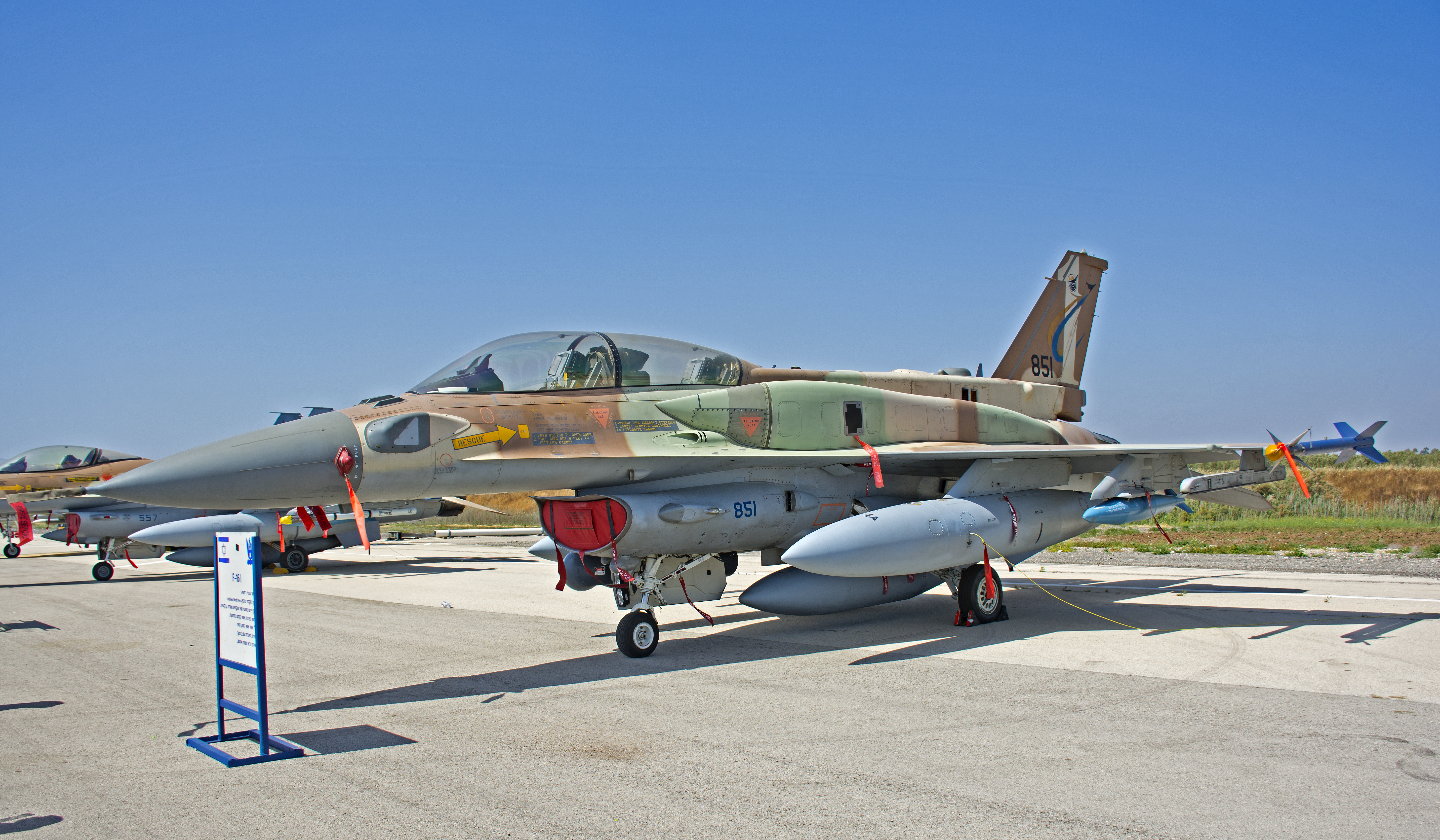 IAF F-16 Sufa, Israeli Air Force, Independence Day 2017